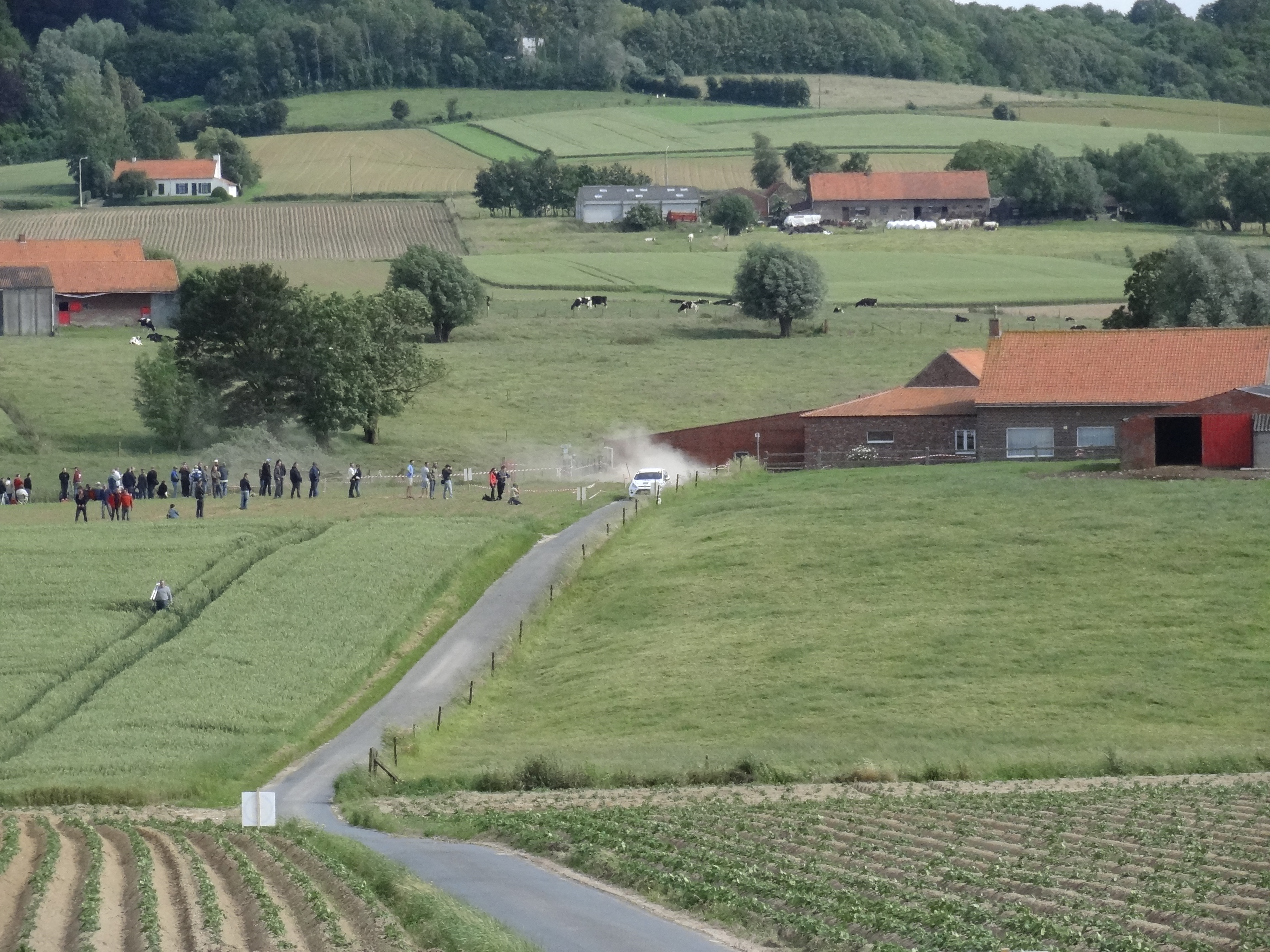 Gekko Ypres Rally 2012